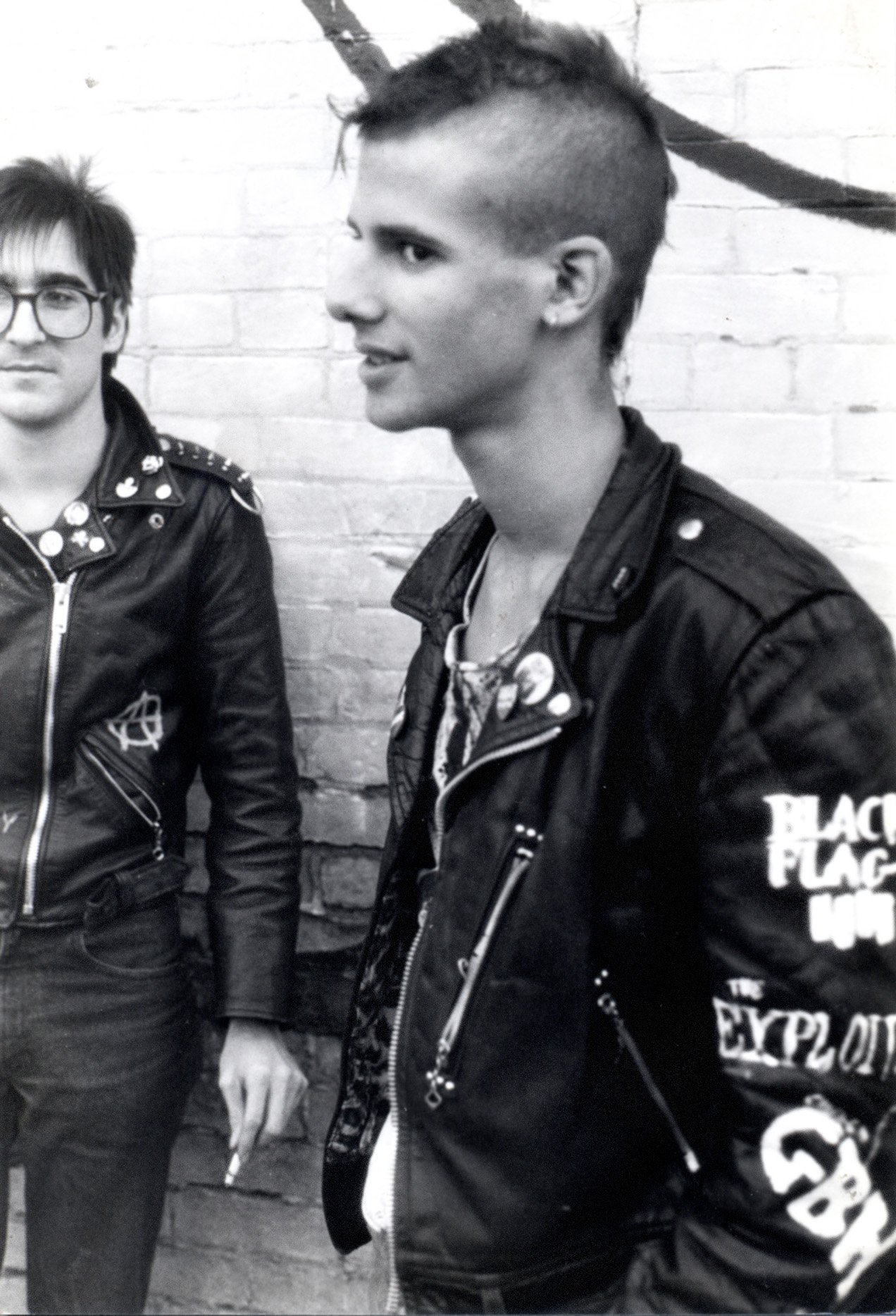 Young punk with leather jacket. Evansville, Indiana.